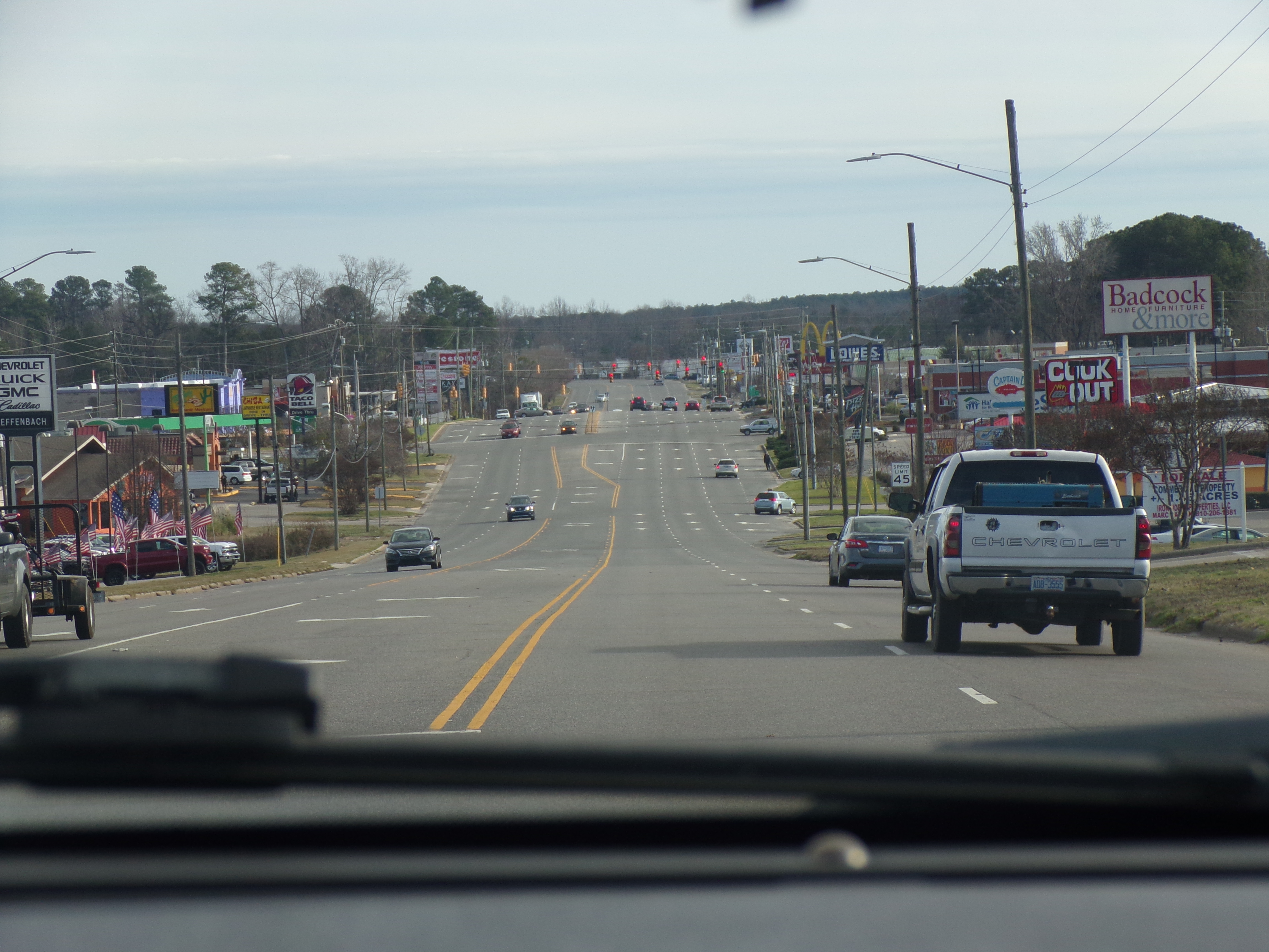 Uptown area in 2019